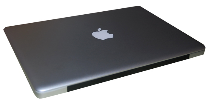 The unibody MacBook with cover closed (before that version was incorporated into the MacBook Pro line).